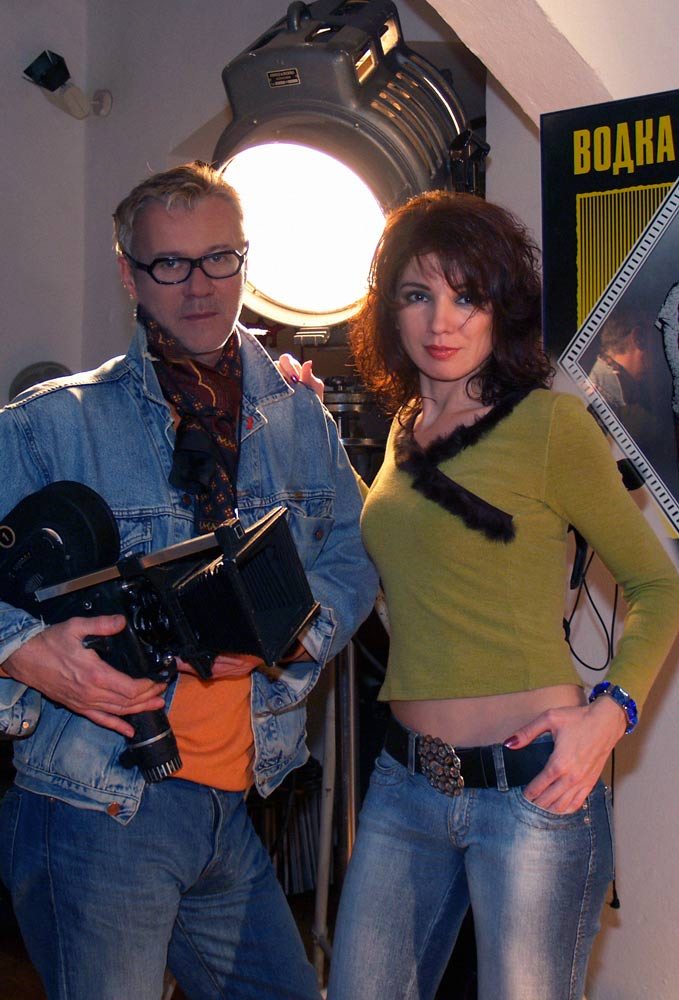 Alexander Schukoff, Nadeschda Schukoff, Vienna 2006